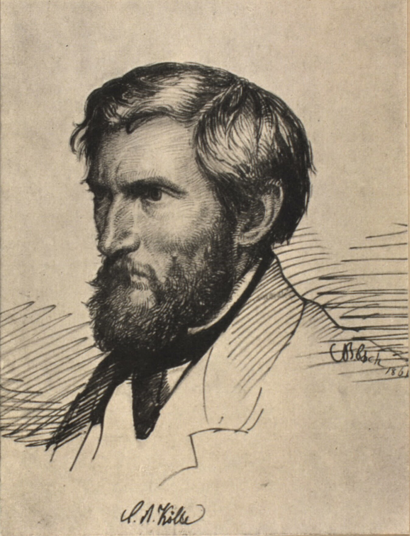 Claus Anton Kølle (1827-1872), Danish landscape painter